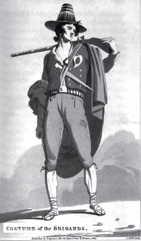 Costume of brigand begin XIX century - Rome province Costume di brigante della campagna Romana, inizio secolo XIX